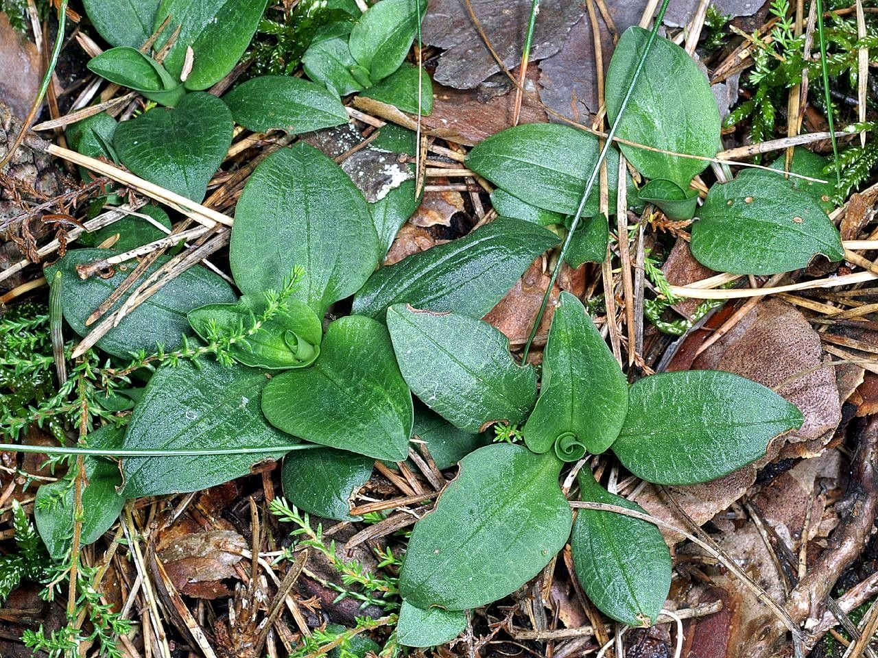 Goodyera repens